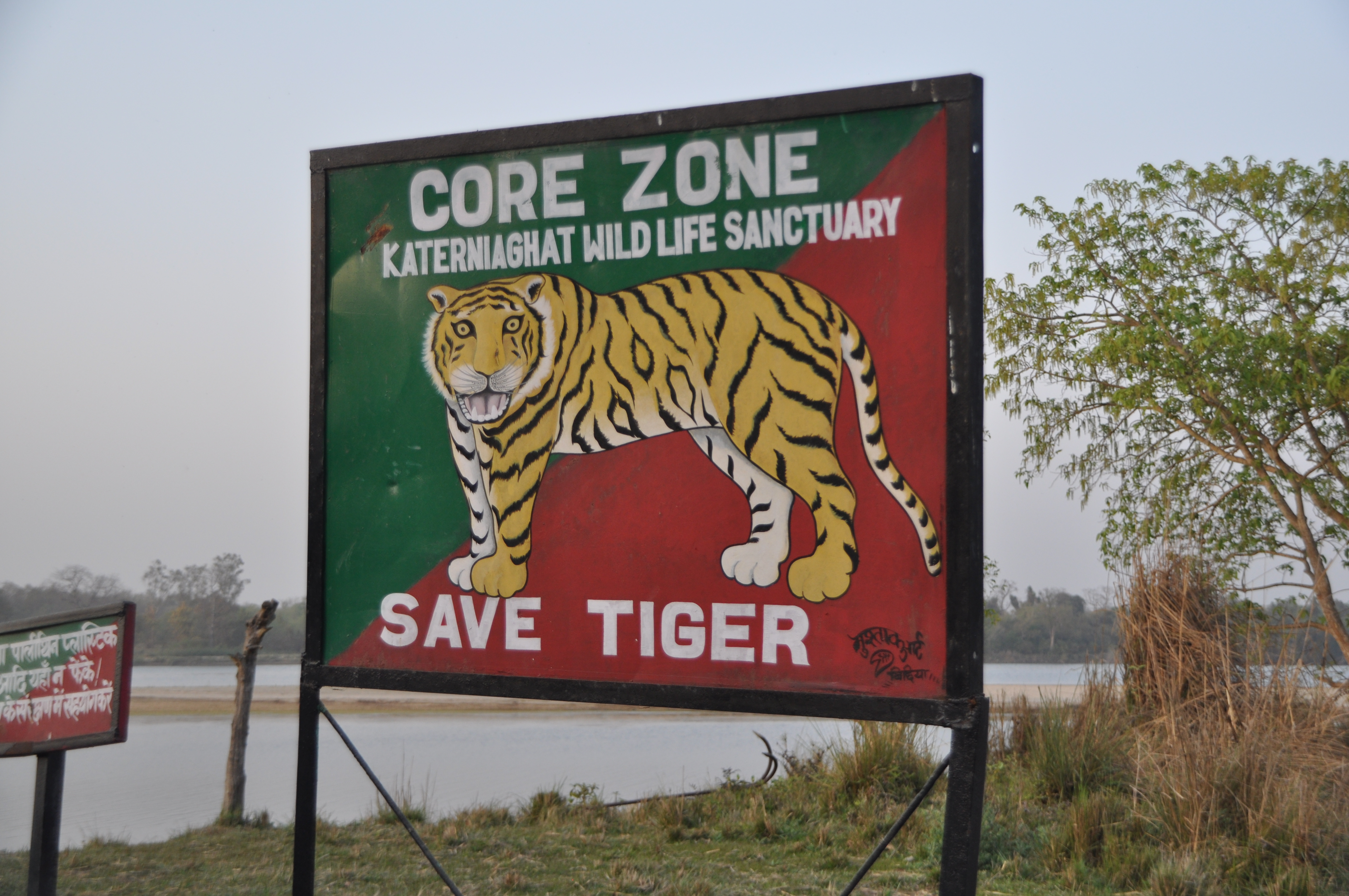 katarniaghat wildlife sanctuary is a great place to see crocodiles and swamp deers. tiger sightings have been difficult